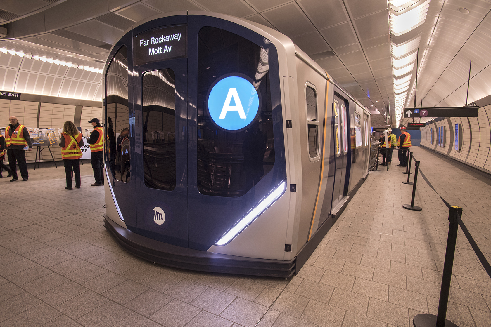 Customers had the opportunity to see the new car design and its features up close from Thursday, Nov. 30 through Wednesday, December 6. at the 7 line subway station mezzanine at 34 Street-Hudson Yards. MTA Photo Credit: MTA New York City Transit / Marc A.Hermann.